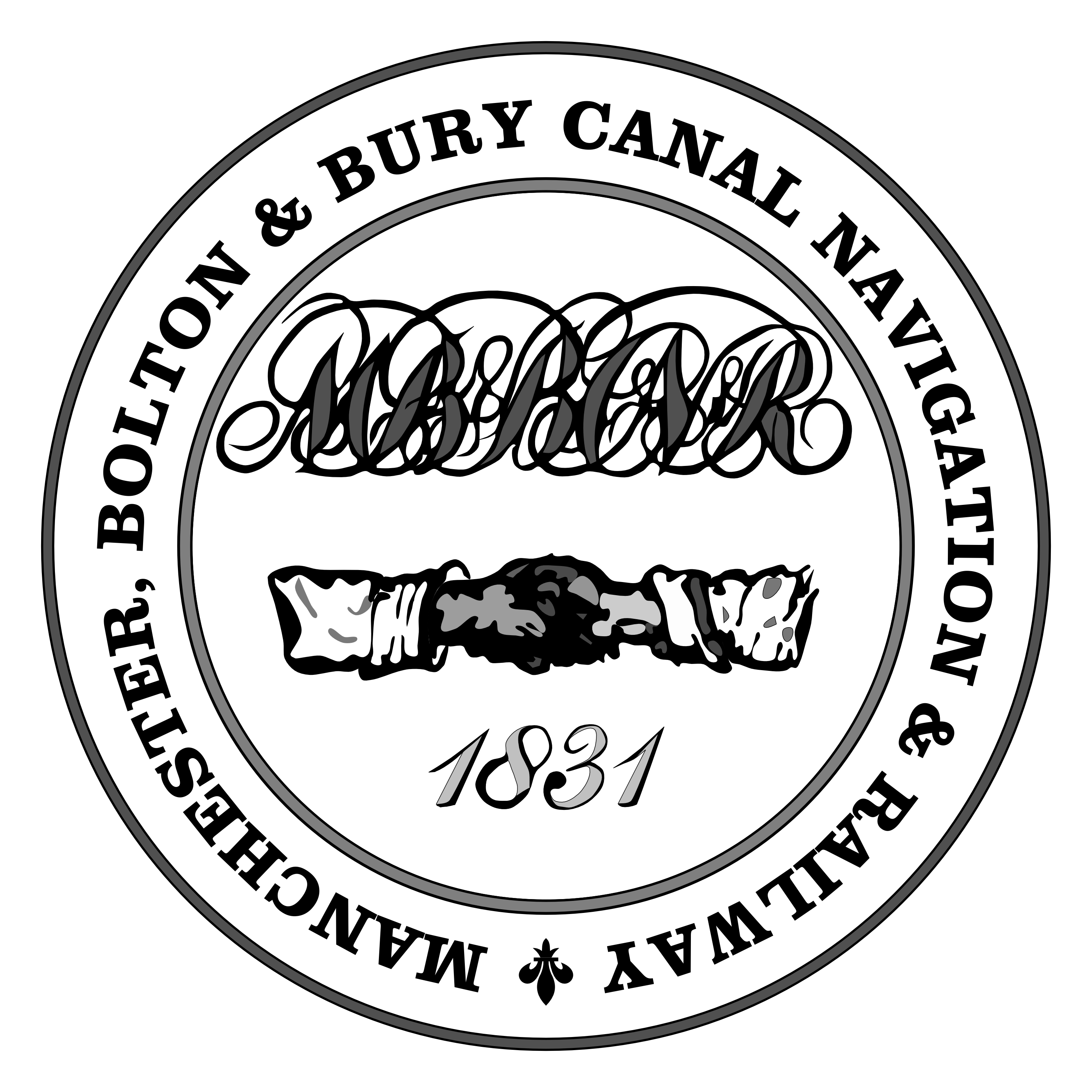 A png file of the seal of the Manchester, Bolton & Bury Canal Navigation & Railway, created from a photograph of the original, vectorised, and exported as a bitmap. This is a monochrome version of the colour copy, also in this category. The font for the lettering is the closest I could find although it lacks some relief evident in the original. Original source file was from John Fletcher of the Manchester Bolton & Bury Canal Society.